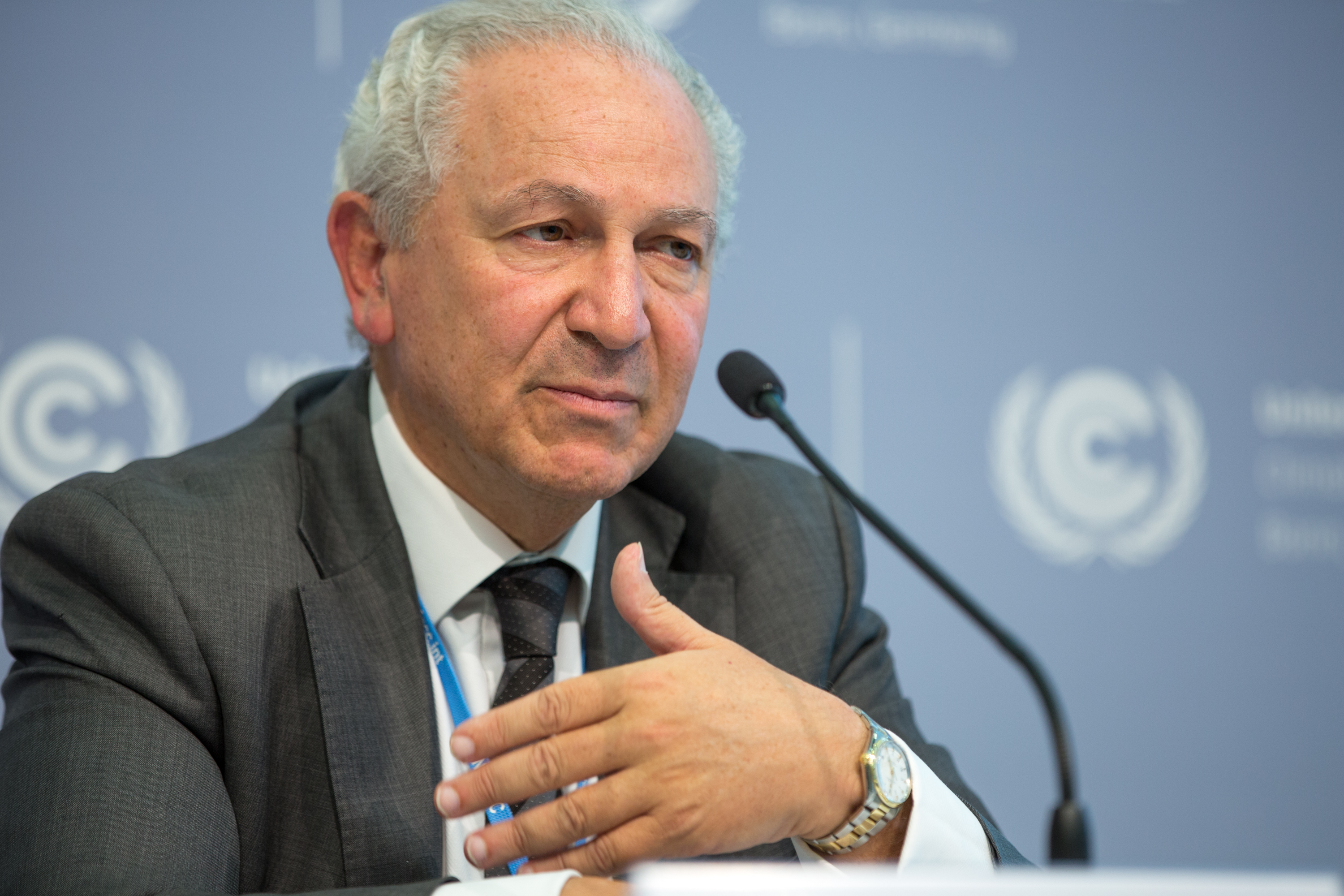 H.E. Aziz Mekouar (Morocco) briefs the press as representative of the incoming COP 22/CMP 12 presidency.